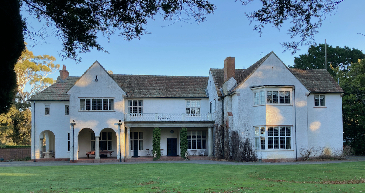 Longwood, built in 1906 for Charles Buckland Pharazyn (1868–1938), architect Henry Swan. Replaced the original Longwood homestead built in 1857. Owned by the Riddiford family 1911–1989.